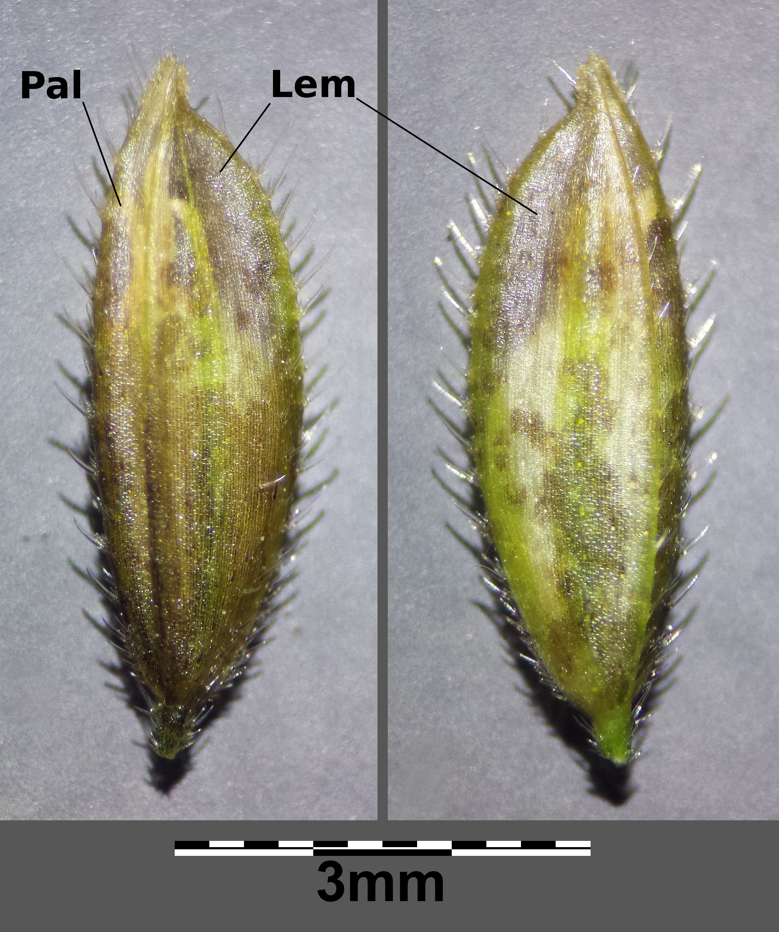 Spikelet with Lemma (Lem) and Palea (Pal) Taxonym: Leersia oryzoides ss Fischer et al. EfÖLS 2008 ISBN 978-3-85474-187-9 Location: Marchfeldkanal near Steinamangergasse, Wien-Floridsdorf - ca. 160 m a.s.l. Habitat: shore